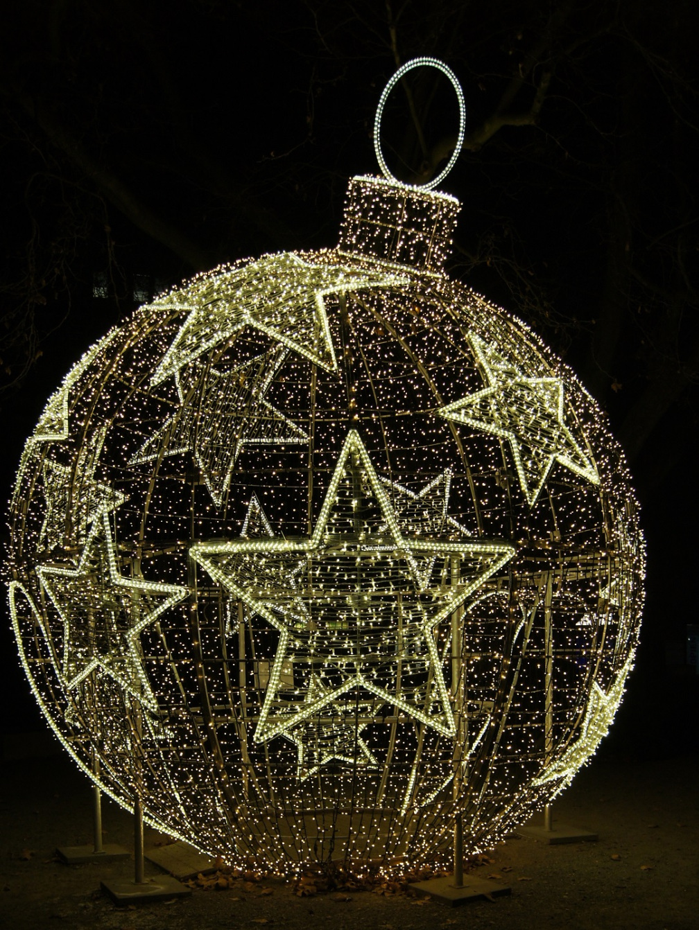 walk through Christmas bauble (LED) in Ludwigshafen am Rhein